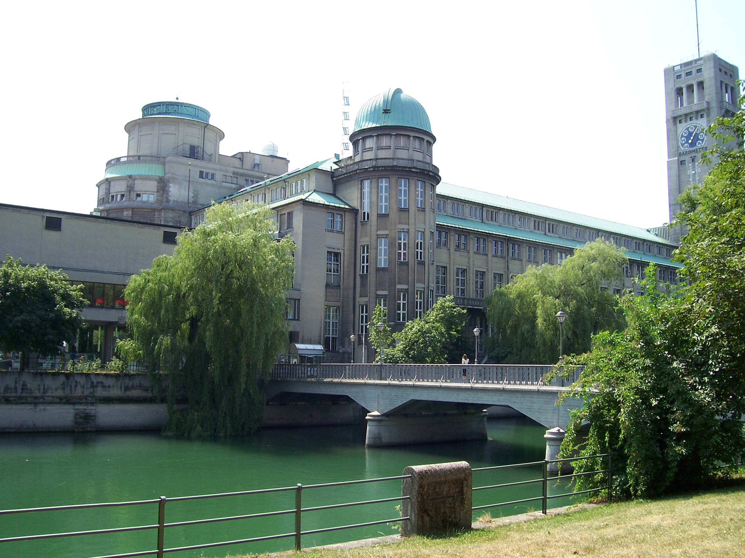 Deutsches museum (Munich, Germany)